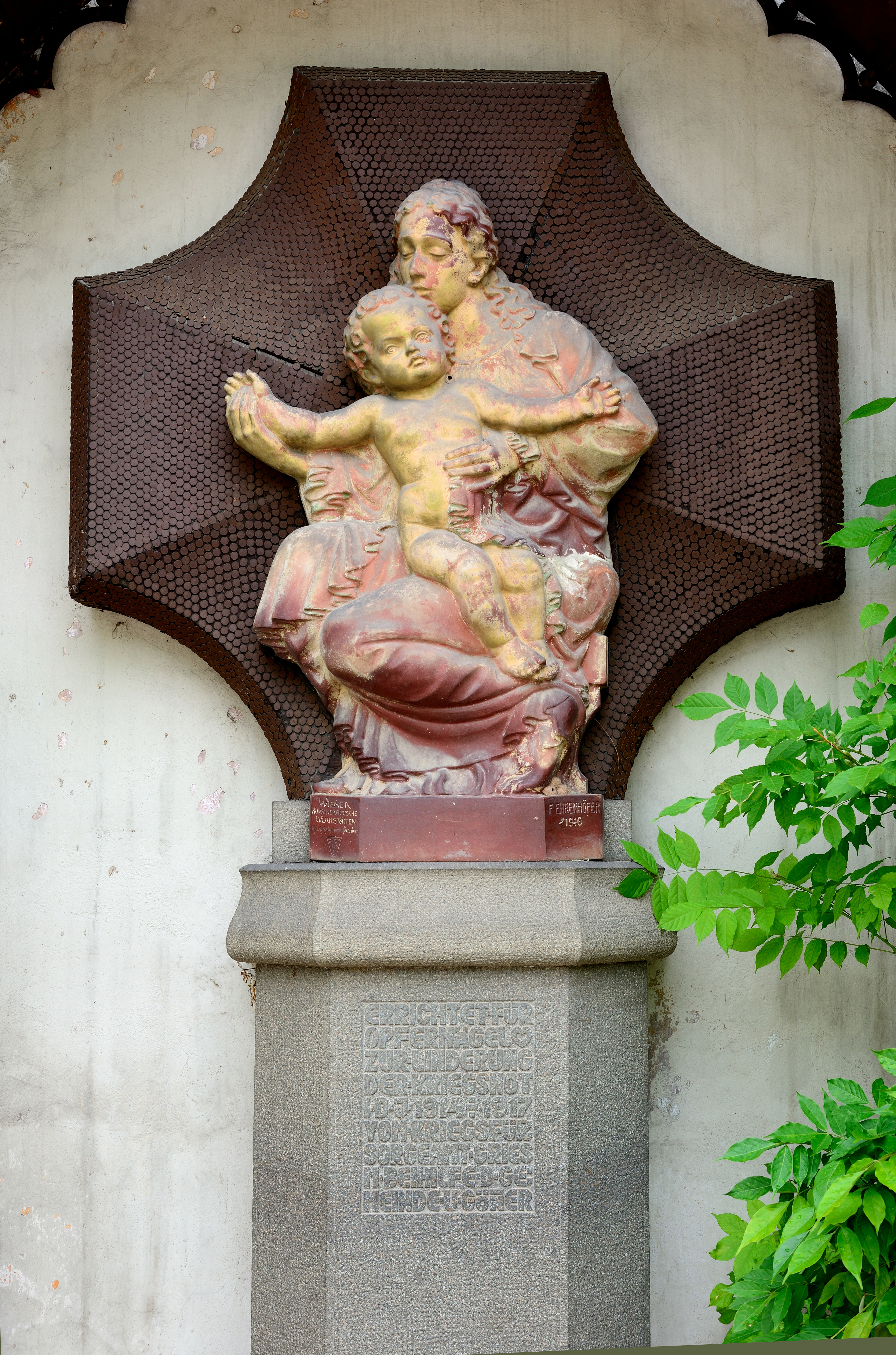 "Nail Men" Madonna and child by Wiener Kunstkeramische Werkstätten F. Ehrenhöfer AD 1916 at the church of Saint Augustin in Bozen-Gries